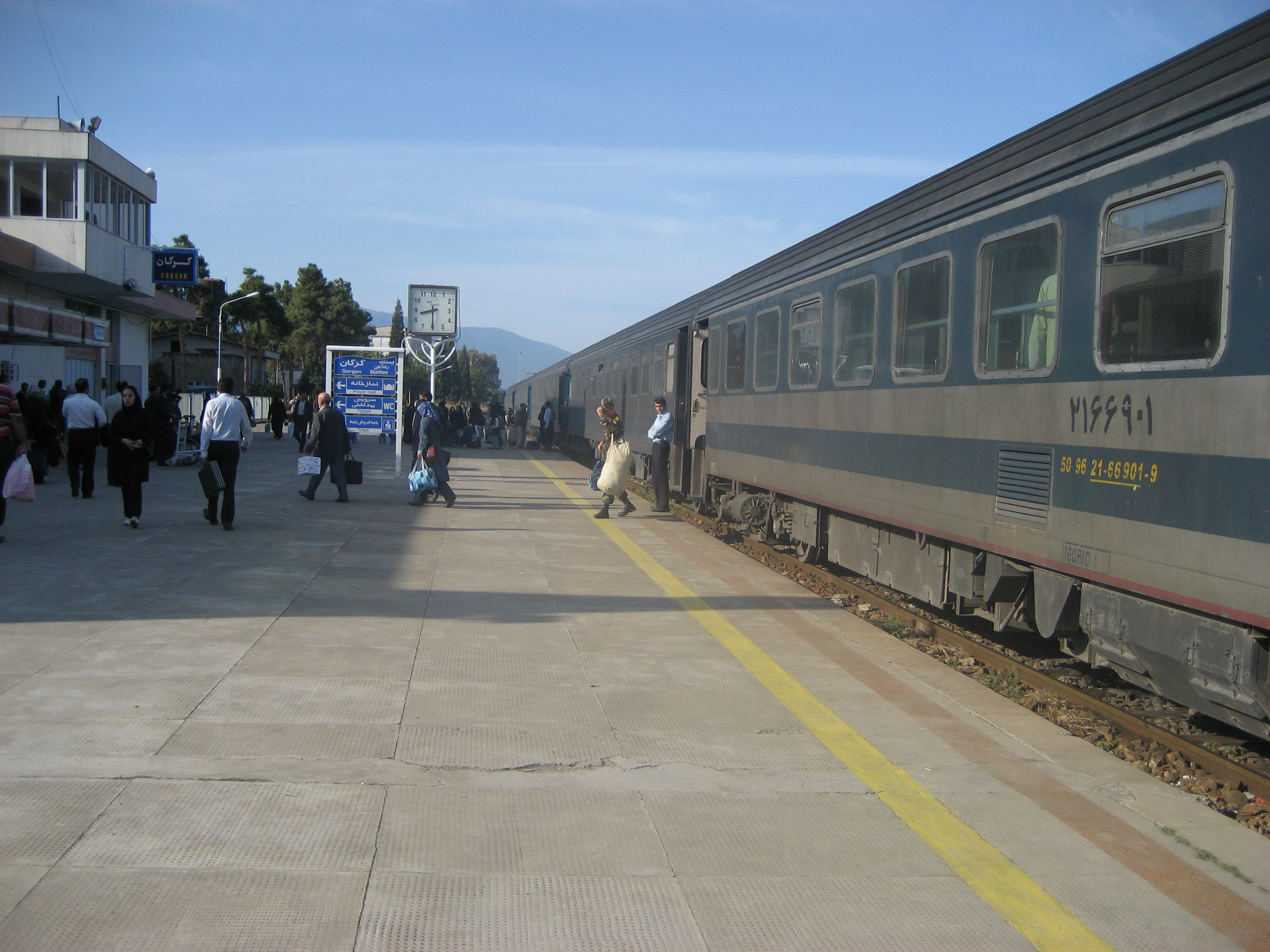 Gorgan Railway Station, Gorgan city, Iran.